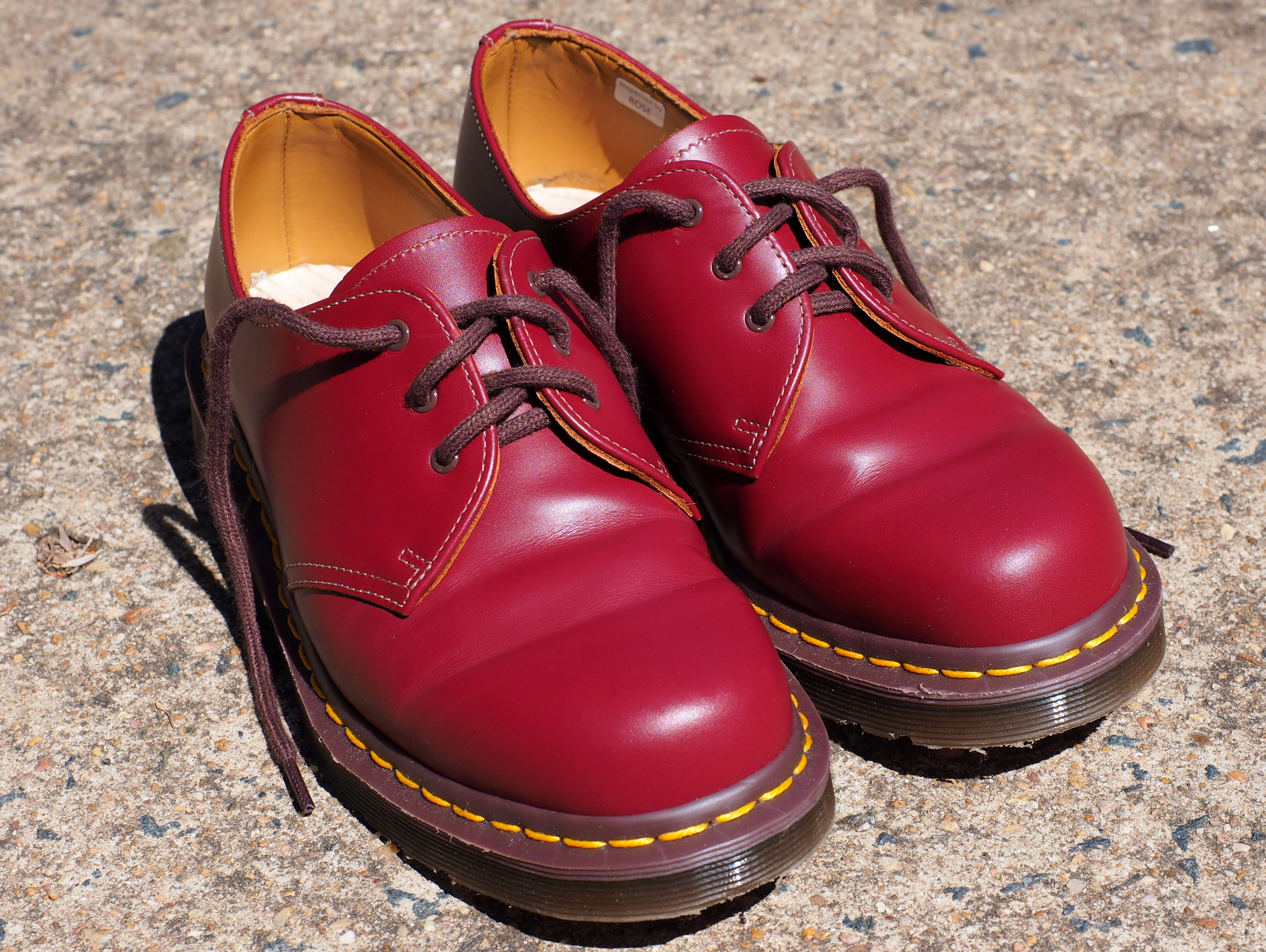 Unlaced Dr Martens Oxblood Made in England 1461 shoes